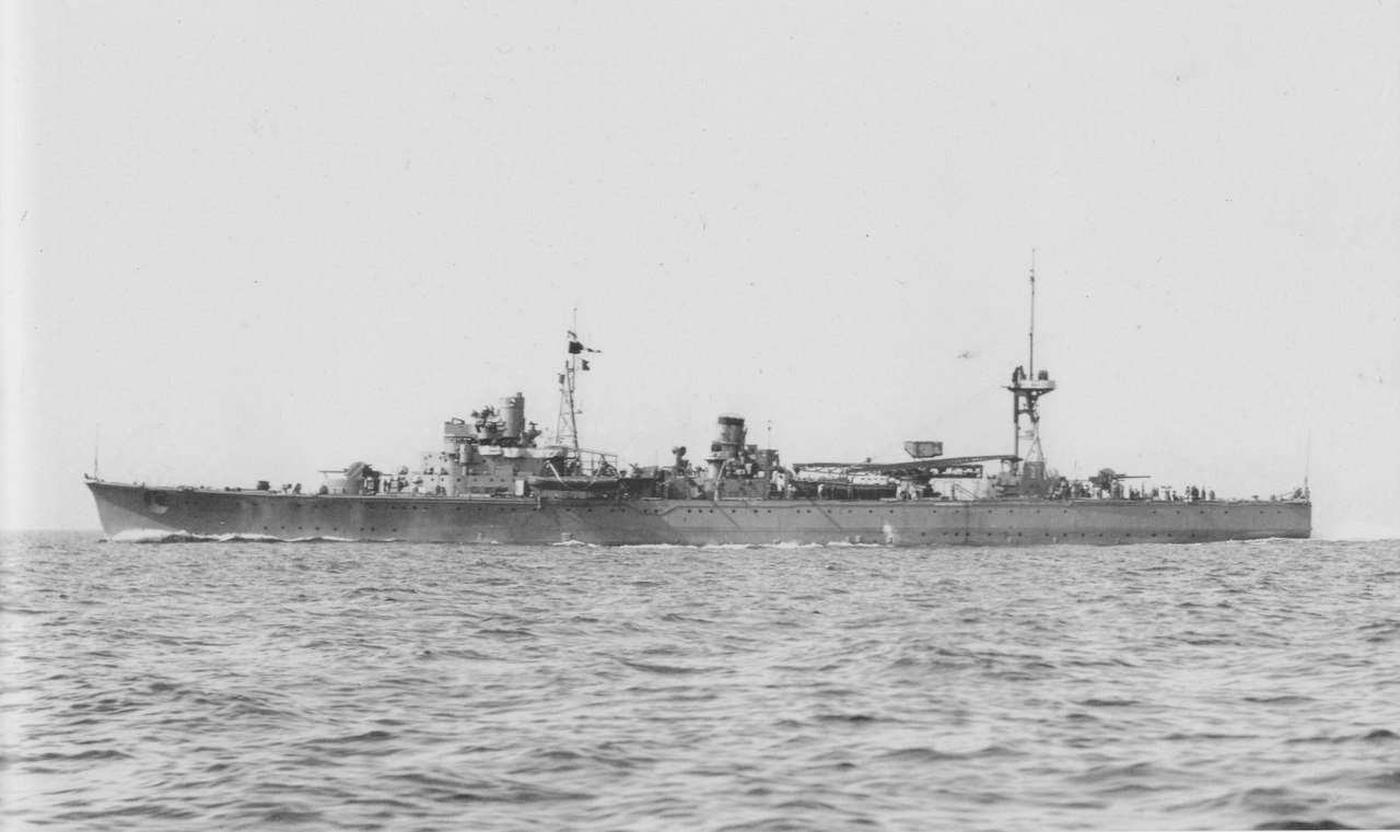 Japanese minelayer "Tsugaru" off Tateyama.